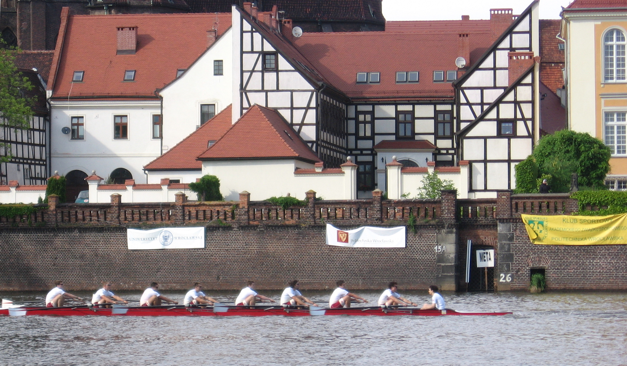 Technical University of Wrocław team, the winner of May 12th 2007 race, on finish line